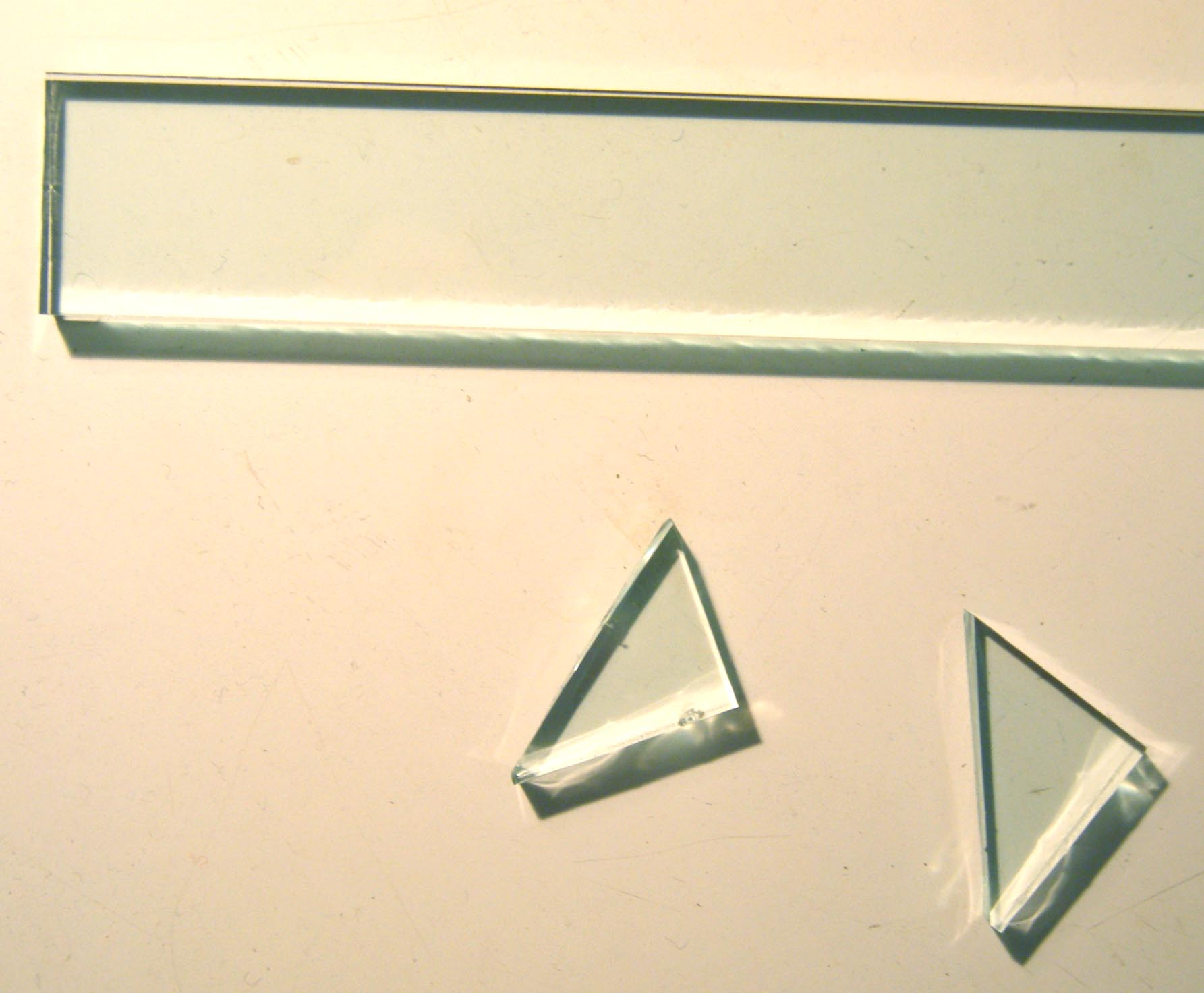 glass blades for ultramicrotome